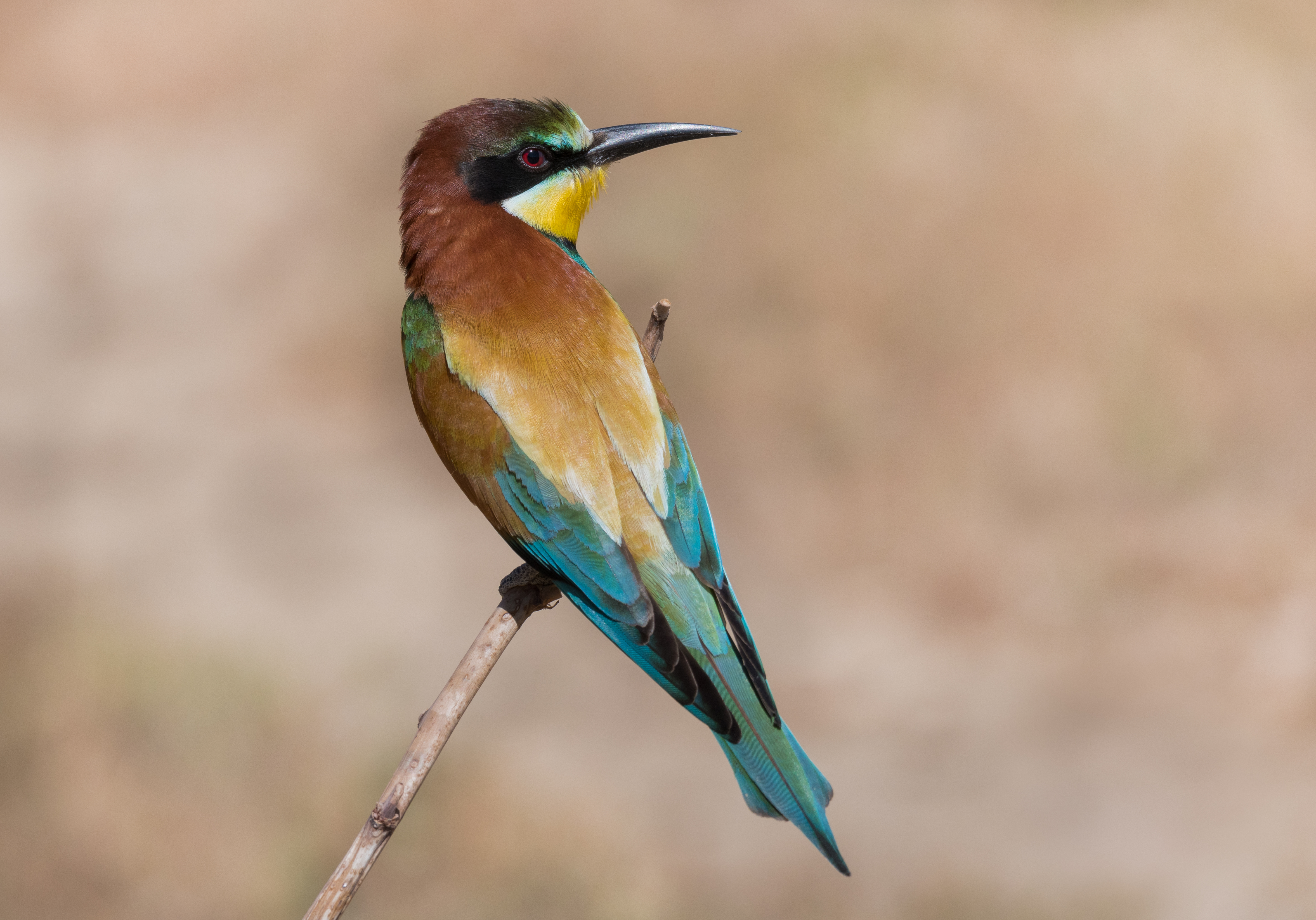 Merops apiaster (European Bee-eater) at Ichkeul National Park